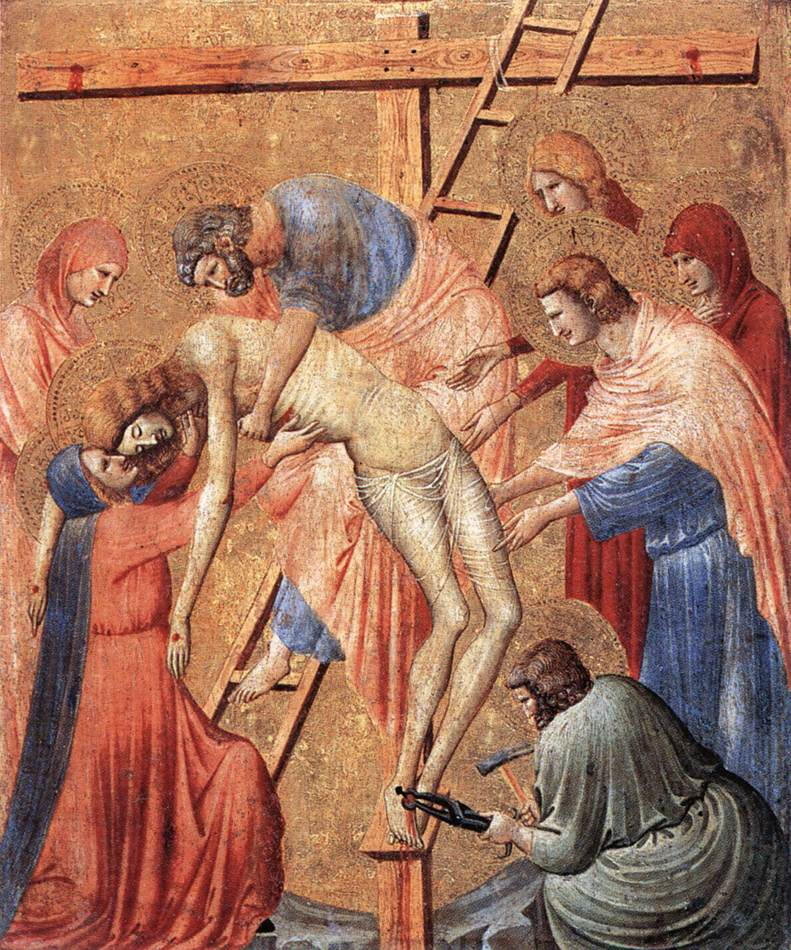 The Deposition